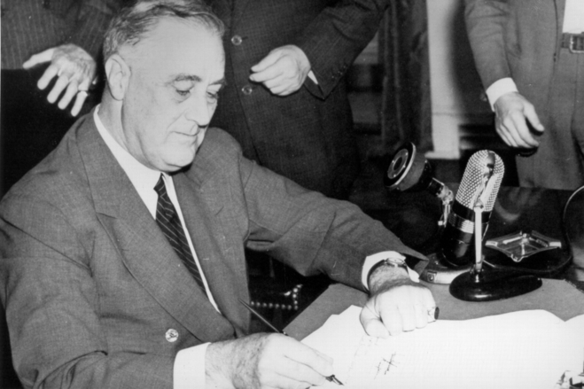 President Roosevelt signs the Selective Service Training and Service Act on Sept. 16, 1940, establishing the first peacetime draft and creating the Selective Service System.